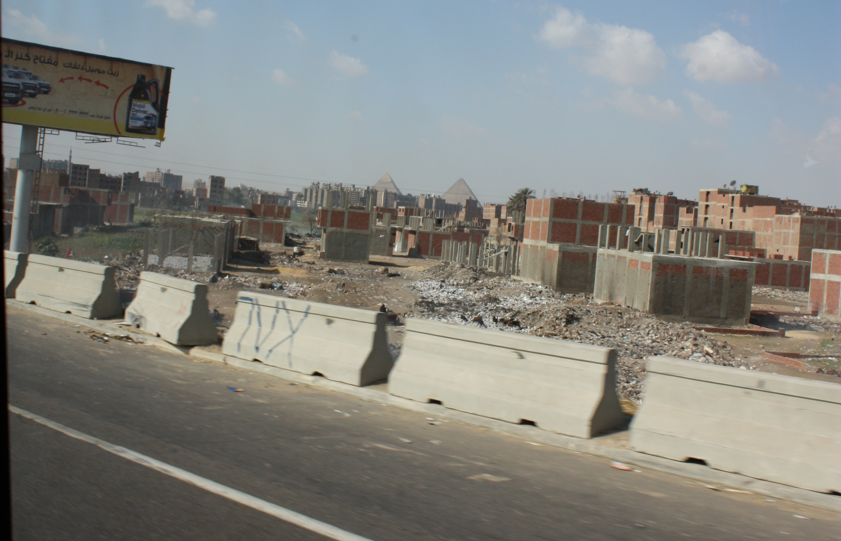 The Great Pyramid of Giza (right) and Khafre's Pyramid (left) from a road several miles away, possibly on Cairo Ring Road near 29°58′58″N 31°10′43″E / 29.982911°N 31.178598°E.